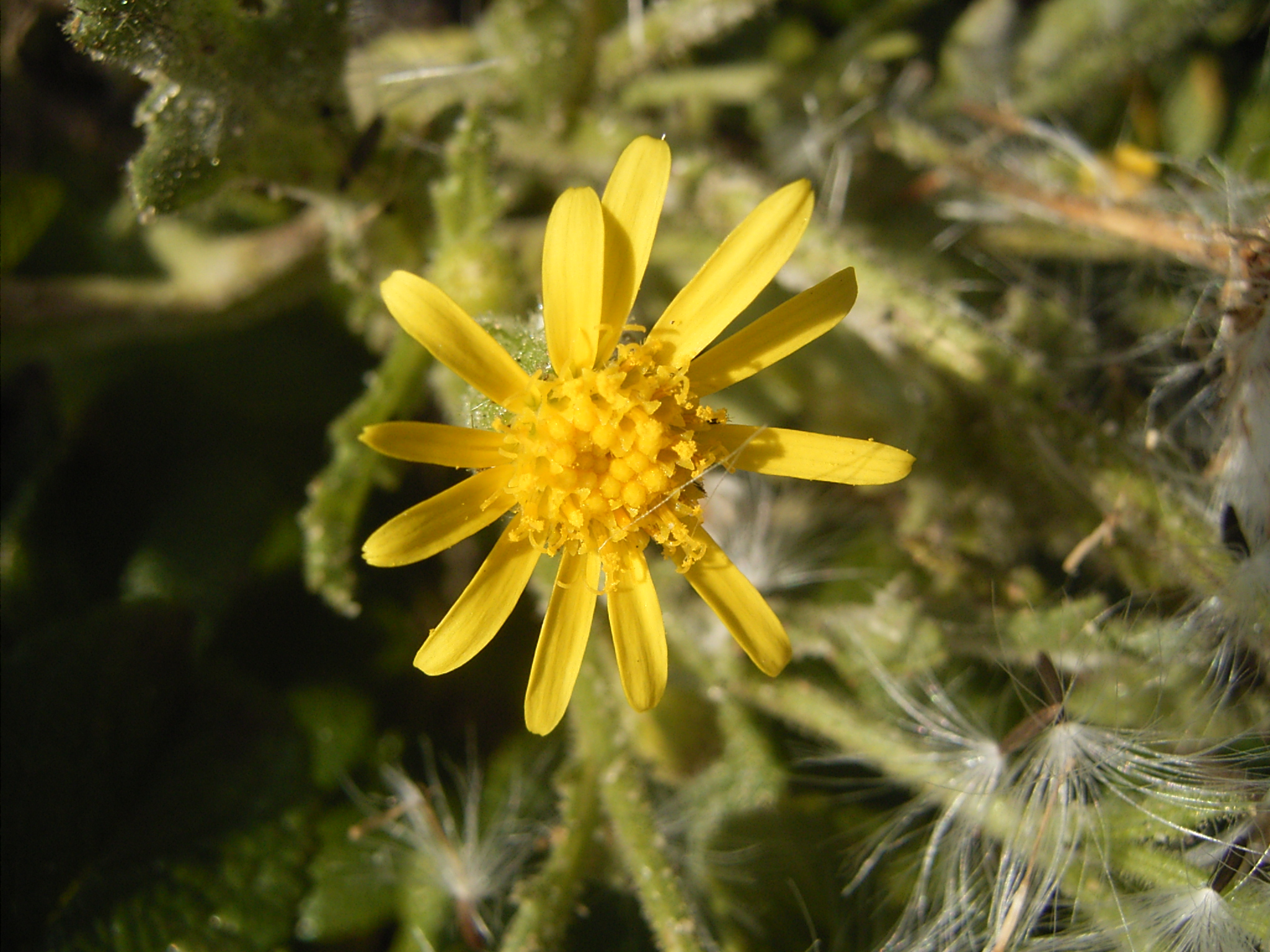 This photo shows Senecio viscosus